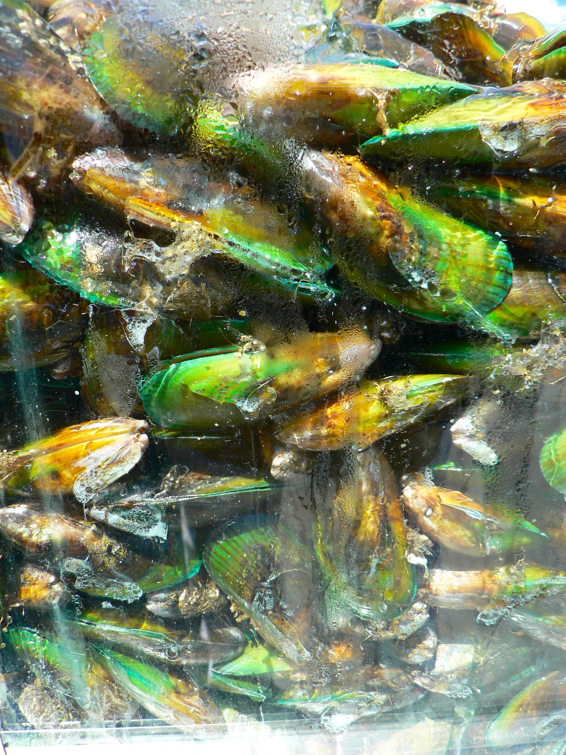 Fresh New Zealand green mussels in glass tank